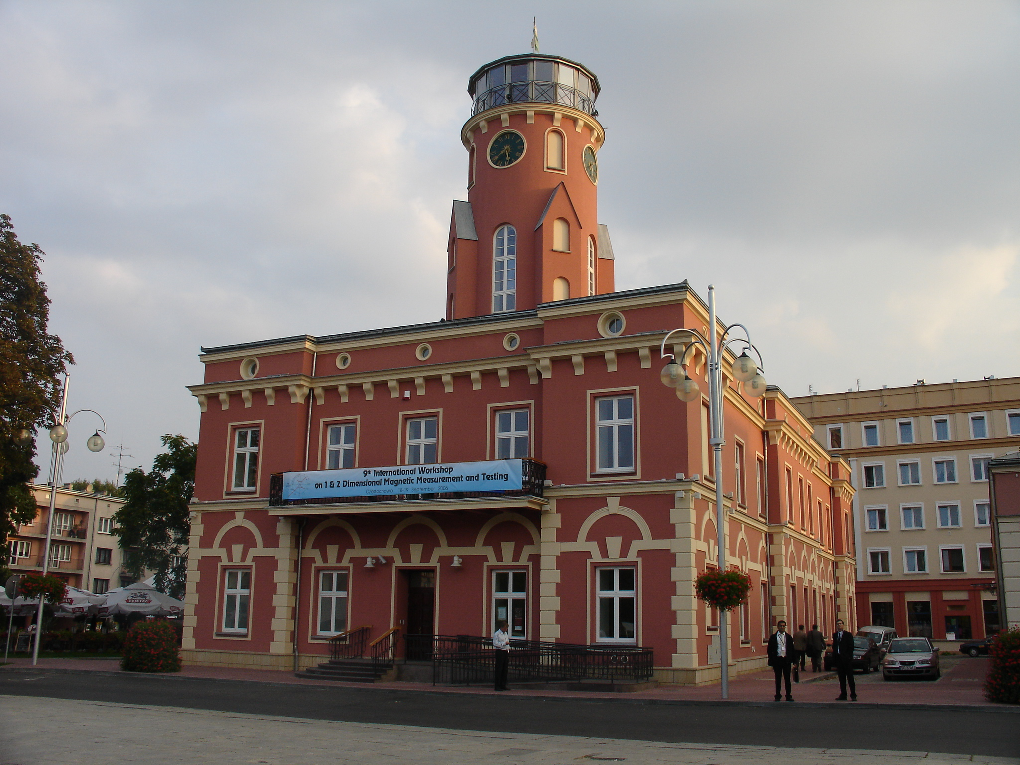 City Hall in Częstochowa (Poland) where the 9th International Workshop on 1 & 2 Dimensional Magnetic Measurement and Testing was held (see the banner)